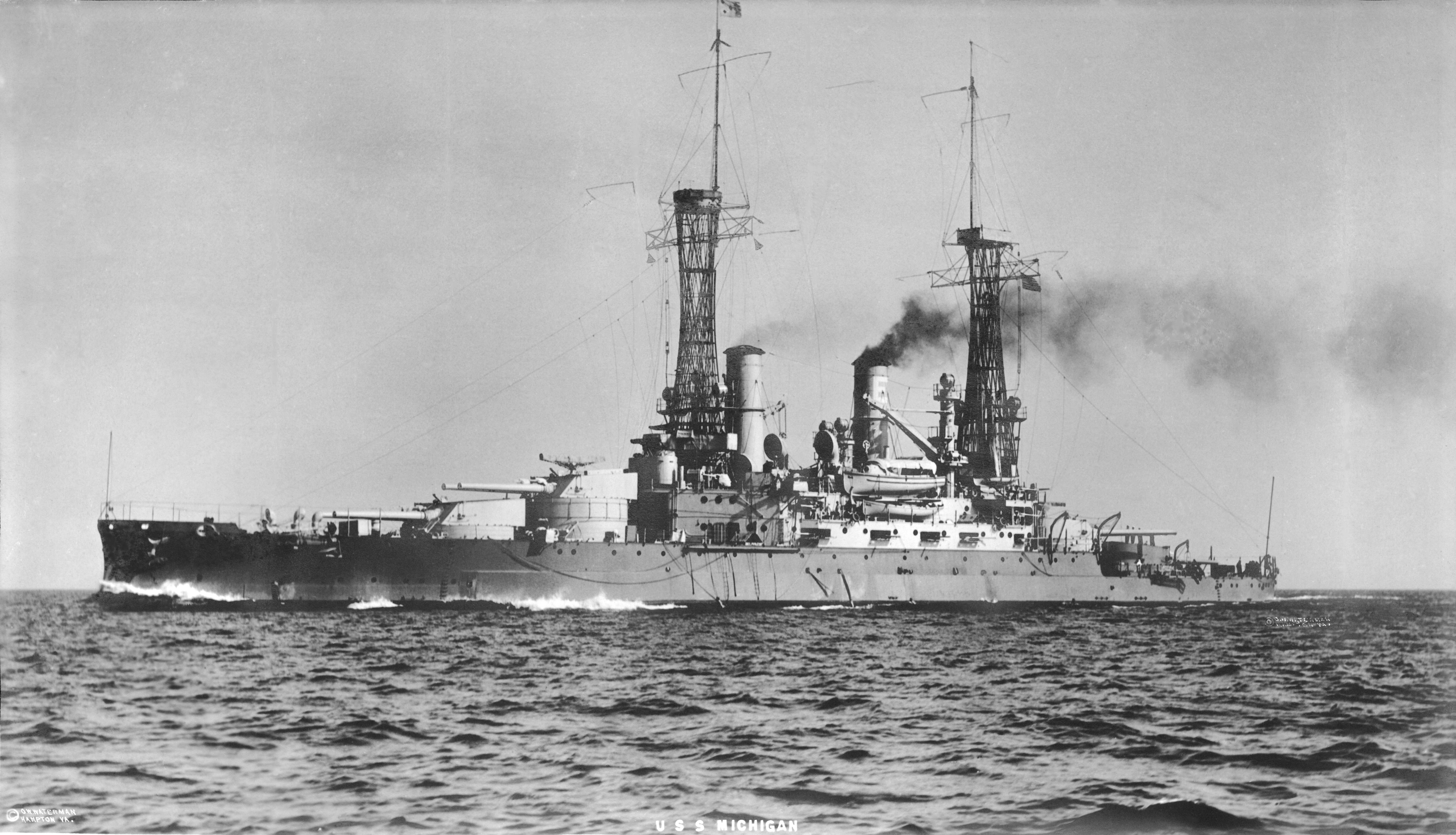 USS Michigan (Battleship # 27) The ship is wearing a horizontal "two-tone" paint scheme, possibly an experimental camouflage.